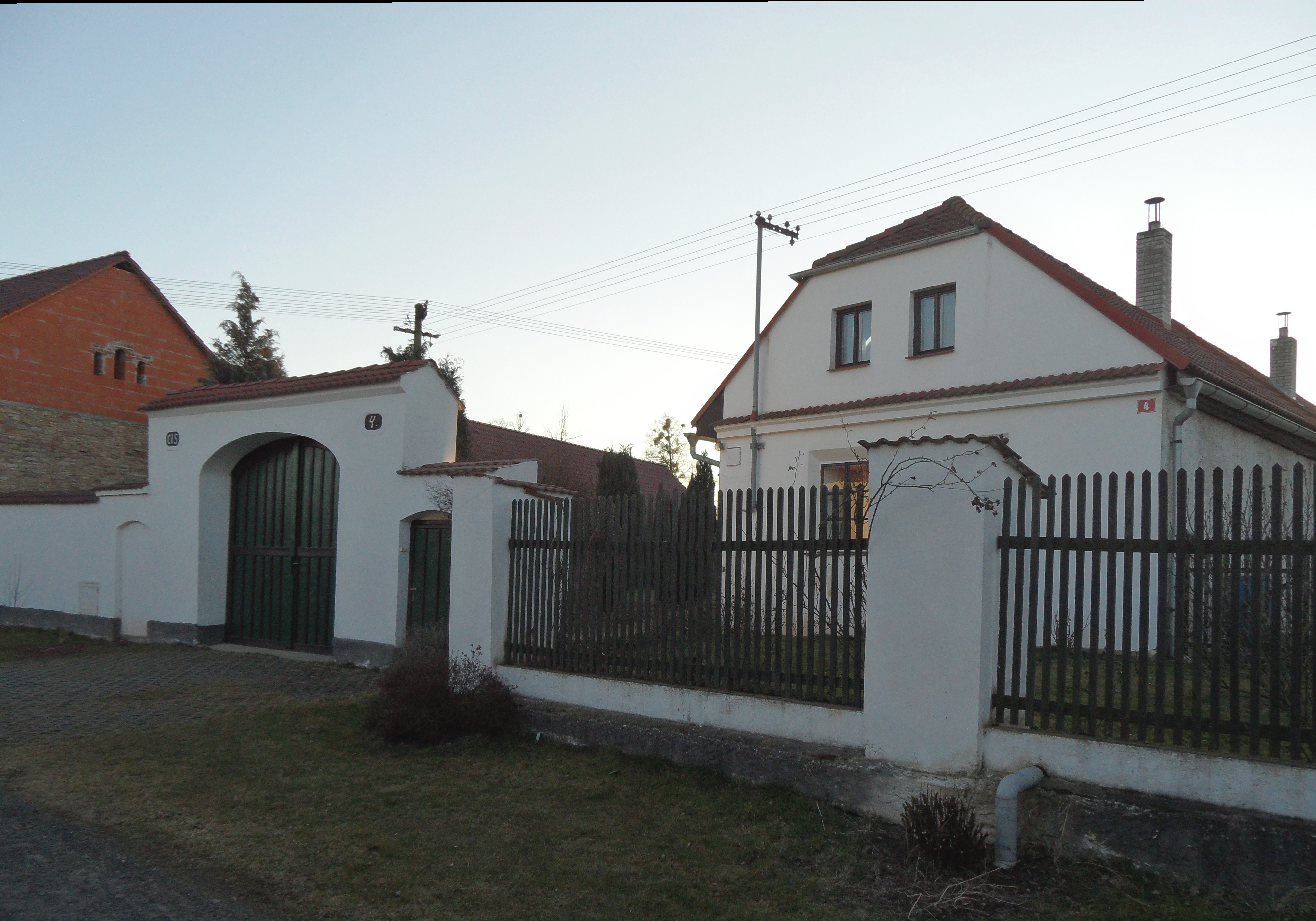 Stupárovice G. House No. 4 at Village Square, Havlíčkův Brod District, the Czech Republic.